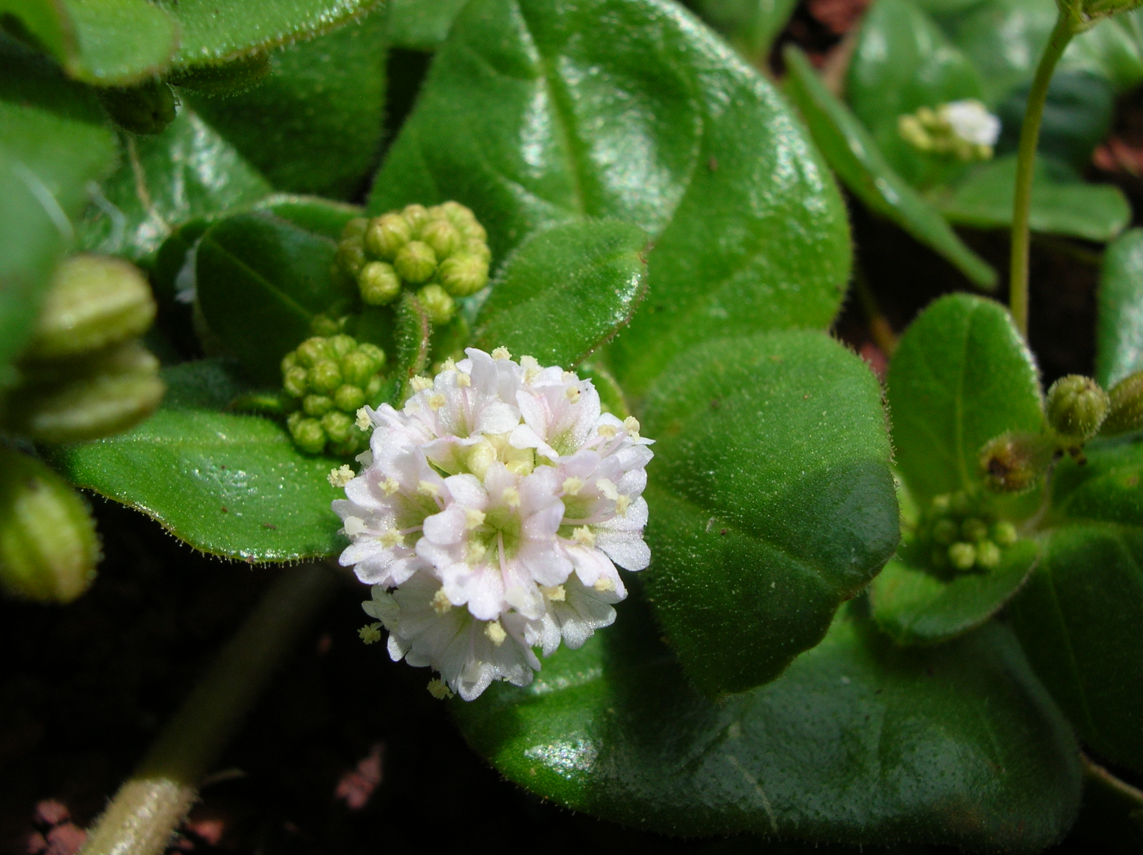 Boerhavia repens (flowers). Location: Maui, Alau